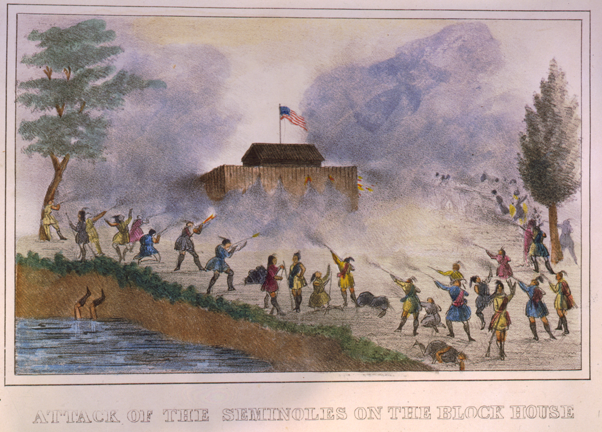 Downloaded from TITLE: Attack of the Seminoles on the block house CALL NUMBER: PGA - Gray & James--Attack of the Seminoles ... (A size) [P&P] REPRODUCTION NUMBER: LC-USZC4-2398 (color film copy transparency) LC-USZ62-11463 (b&w film copy neg.) RIGHTS INFORMATION: No known restrictions on publication. SUMMARY: Print shows an attack by the Seminole Indians possibly on a fort on the Withlacoochee River in December 1835. MEDIUM: 1 print : lithograph, hand-colored. CREATED/PUBLISHED: [Charleston, S.C. : T.F. Gray and James, 1837] CREATOR: Gray & James. NOTES: No. 6 in set of 8 "Views of Florida." The State Library and Archives of Florida cites as "Lithographs of events in the Semonole War in Florida in 1835. Issued by T.F. Gray and James of Charleston, S.C., in 1837. Published in: Many nations: A Library of Congress resource guide for the study of Indian and Alaska native peoples of the United States / edited by Patrick Frazier and the Publishing Office. Washington : Library of Congress, 1996, p. 93.